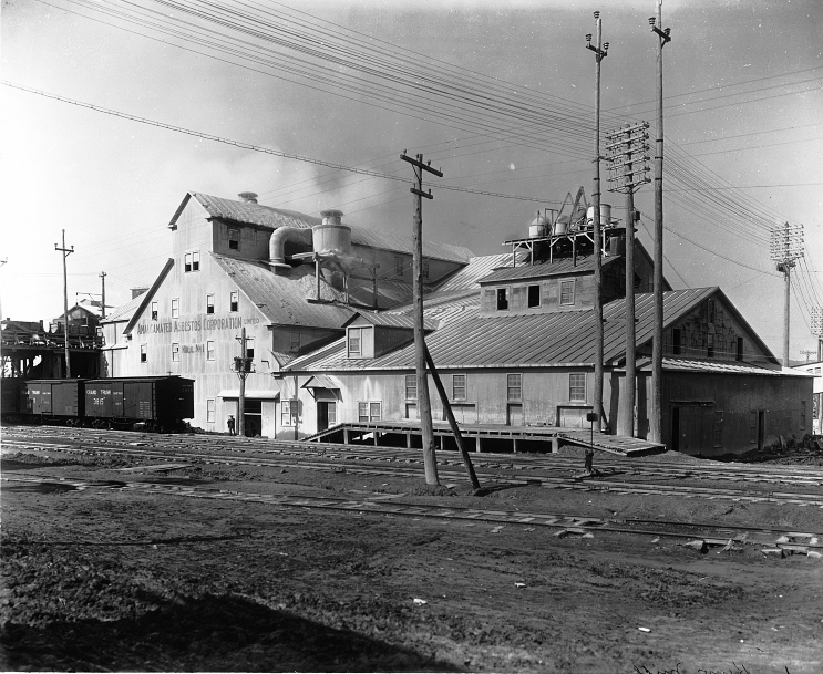 Photograph, King's Mill, Amalgamated Asbestos Corp. Ltd, Thetford Mines, QC, 1909, Wm. Notman & Son, Silver salts on glass - Gelatin dry plate process - 20 x 25 cm